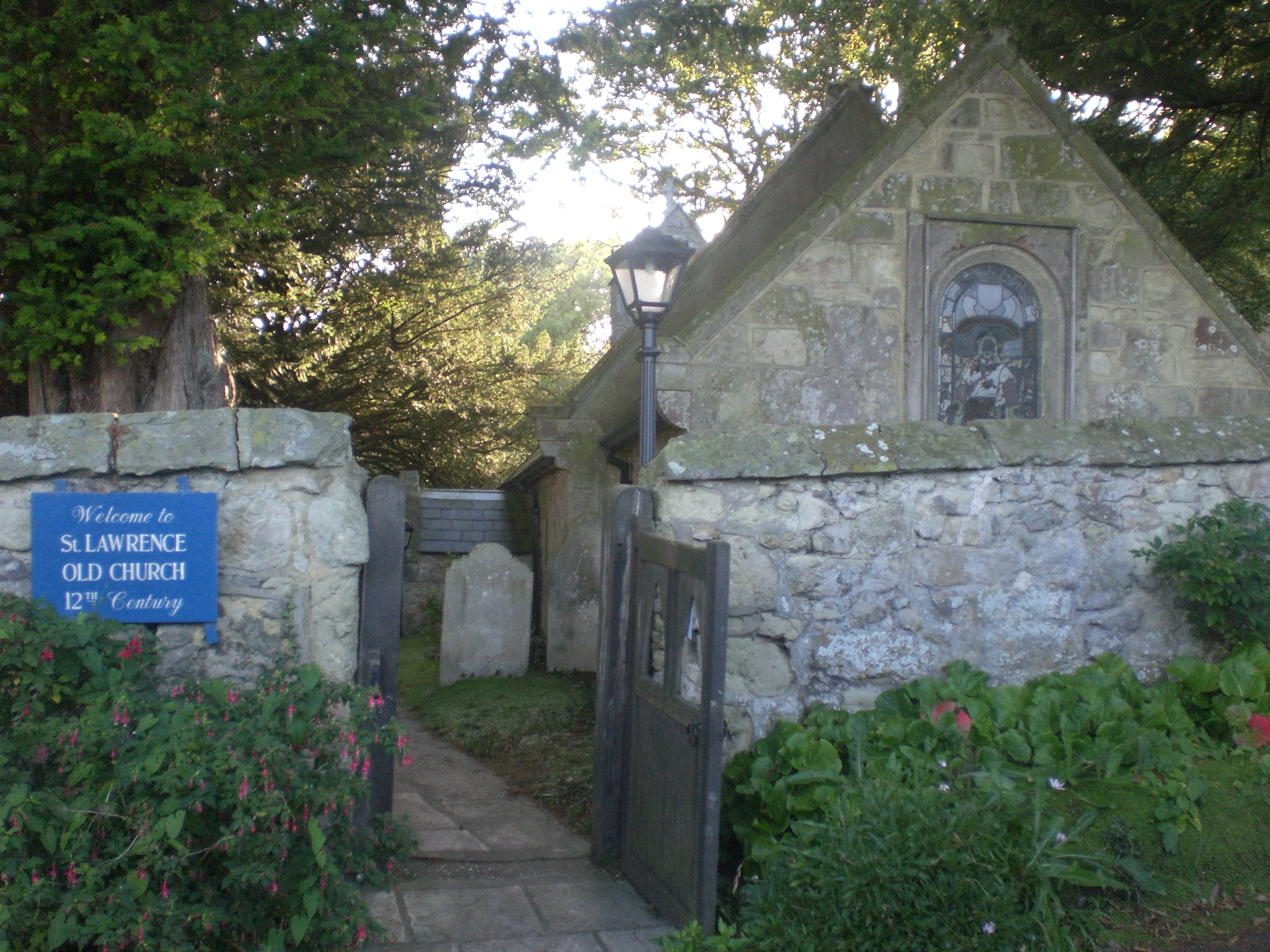 Old Church of St Lawrence, Seven Sisters Road, St Lawrence, Isle of Wight